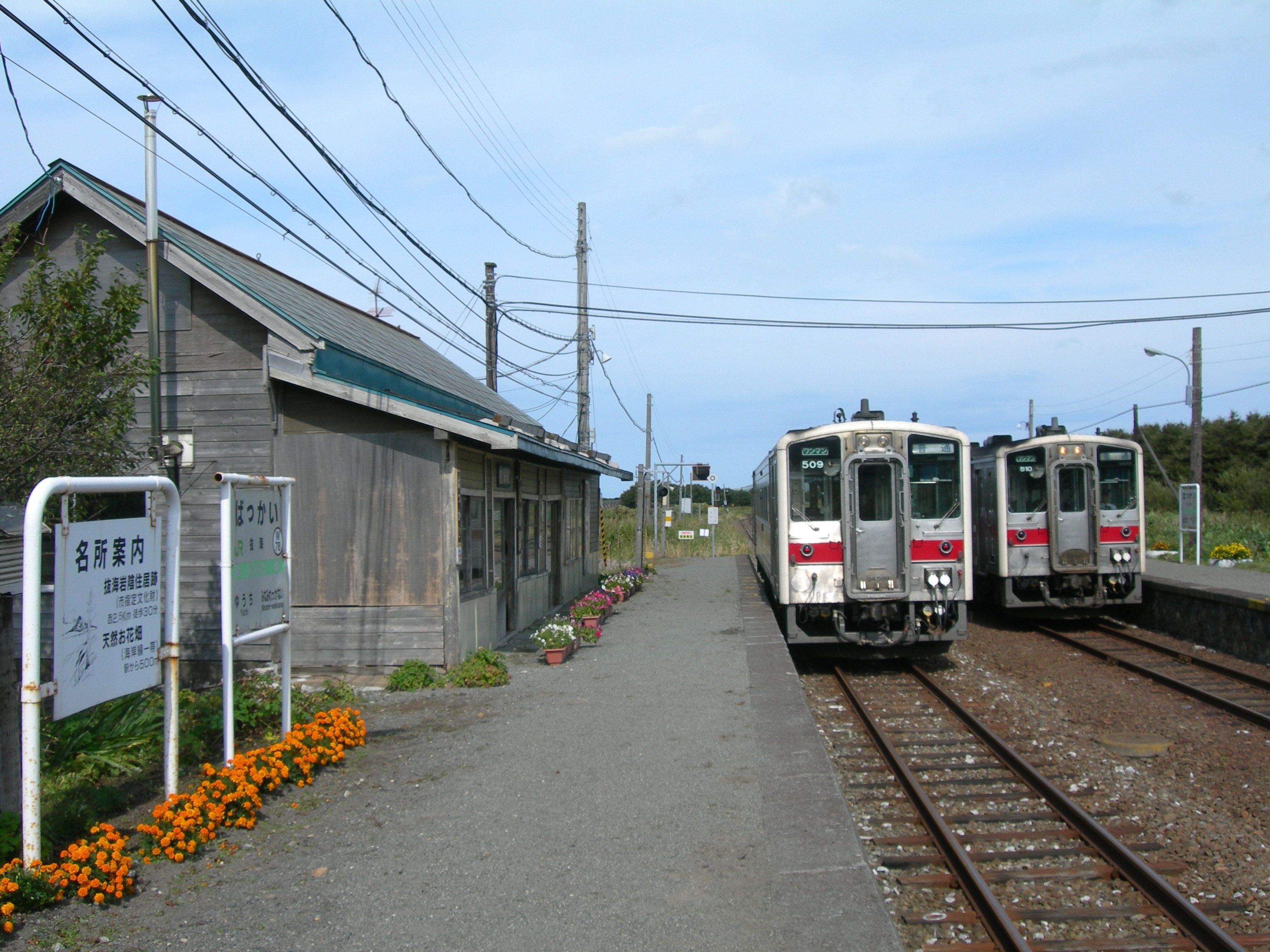 The platforms at Bakkai Station on the Soya Main Line in Hokkaido, Japan